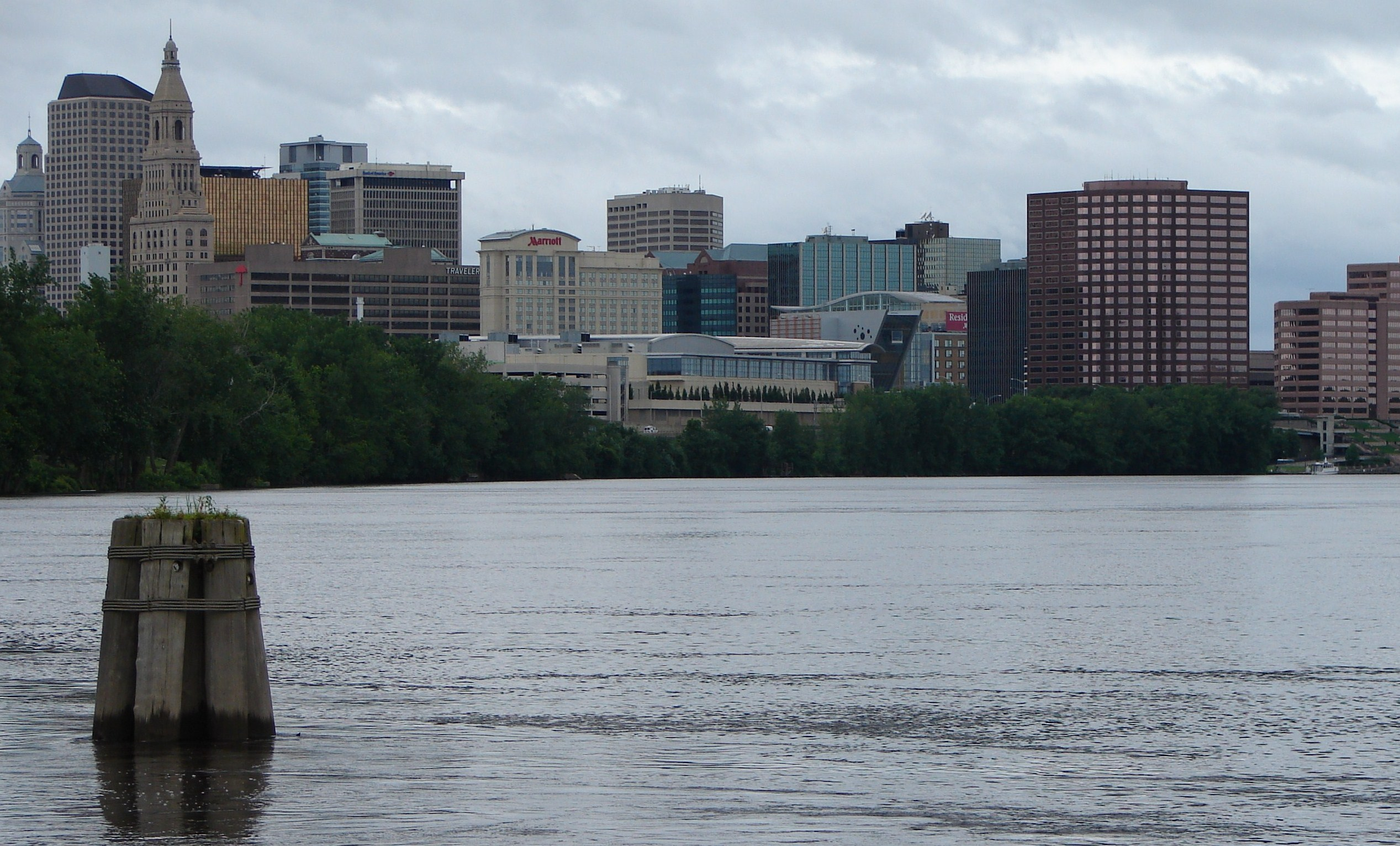 Hartford from the south on the Connecticut River